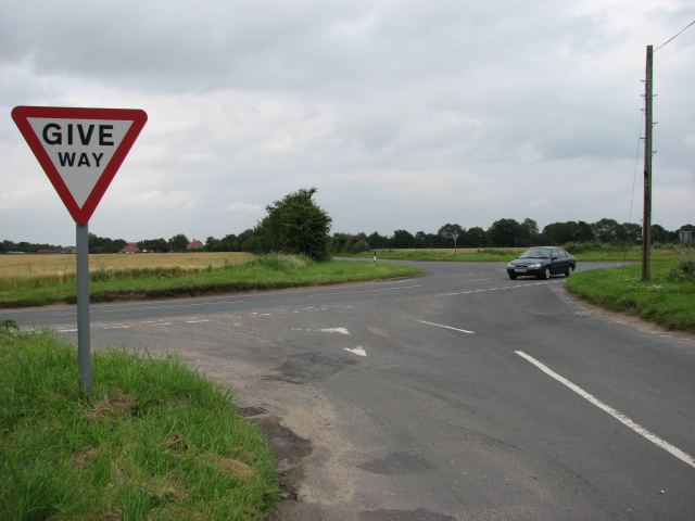 Approaching B1145 from Tungate Road